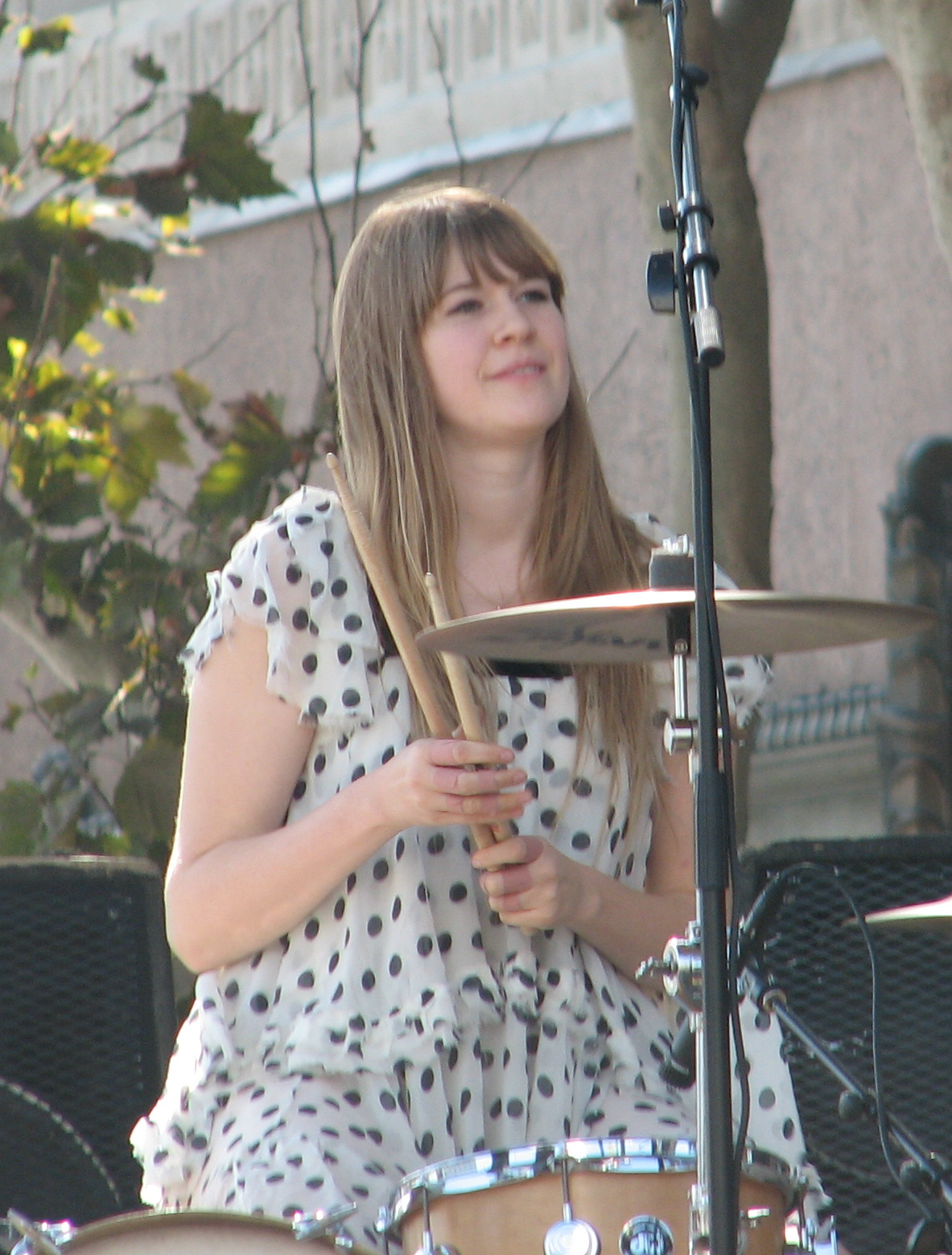 Tennessee Thomas playing drums at Detour 2006.